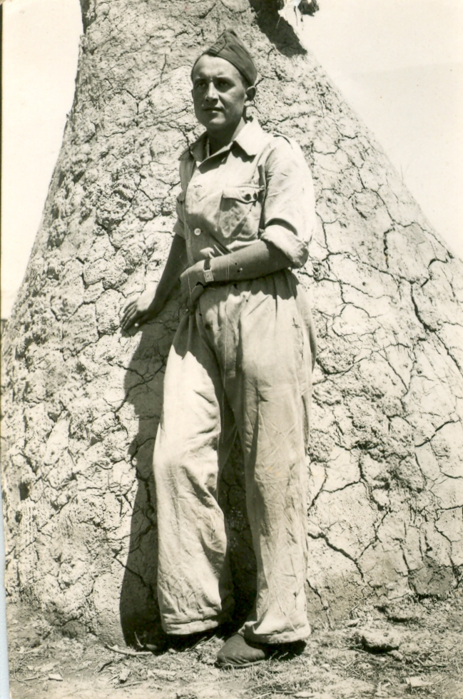 Dragutin Đurđev, volunteer from Vojvodina (Serbia) in Spanish Civil War (1936-1939) Srpski (latinica): Dragutin Đurđev, dobrovoljac iz Vojvodine u Španskom građanskom ratu (1936-1939)